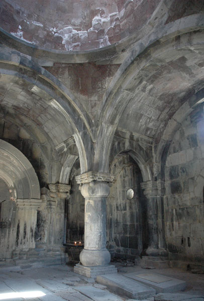 Sanahin monastery. All Saviors Church gavit. Armenia